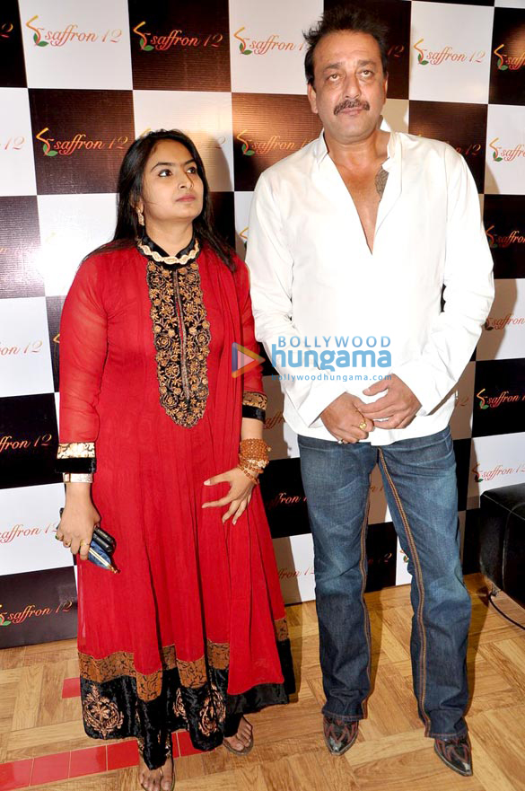 Sanjay Dutt at the launch of 'Saffron 12